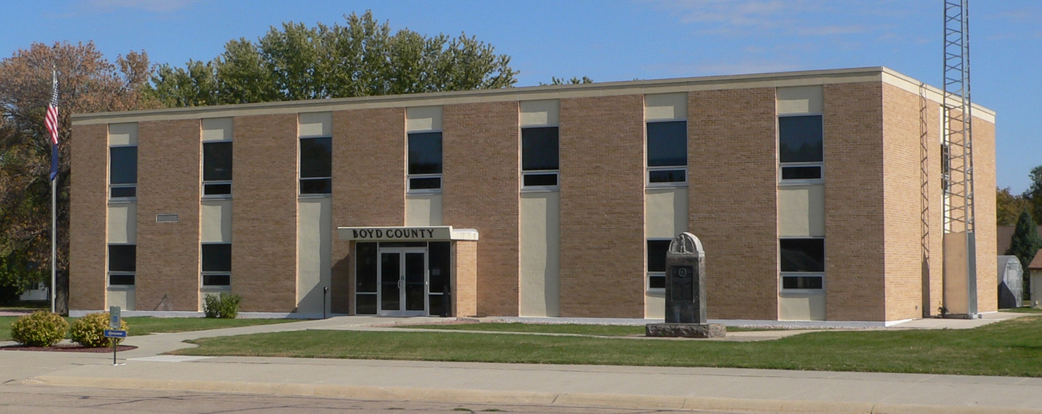 Boyd County courthouse in Butte, Nebraska; seen from the southwest.